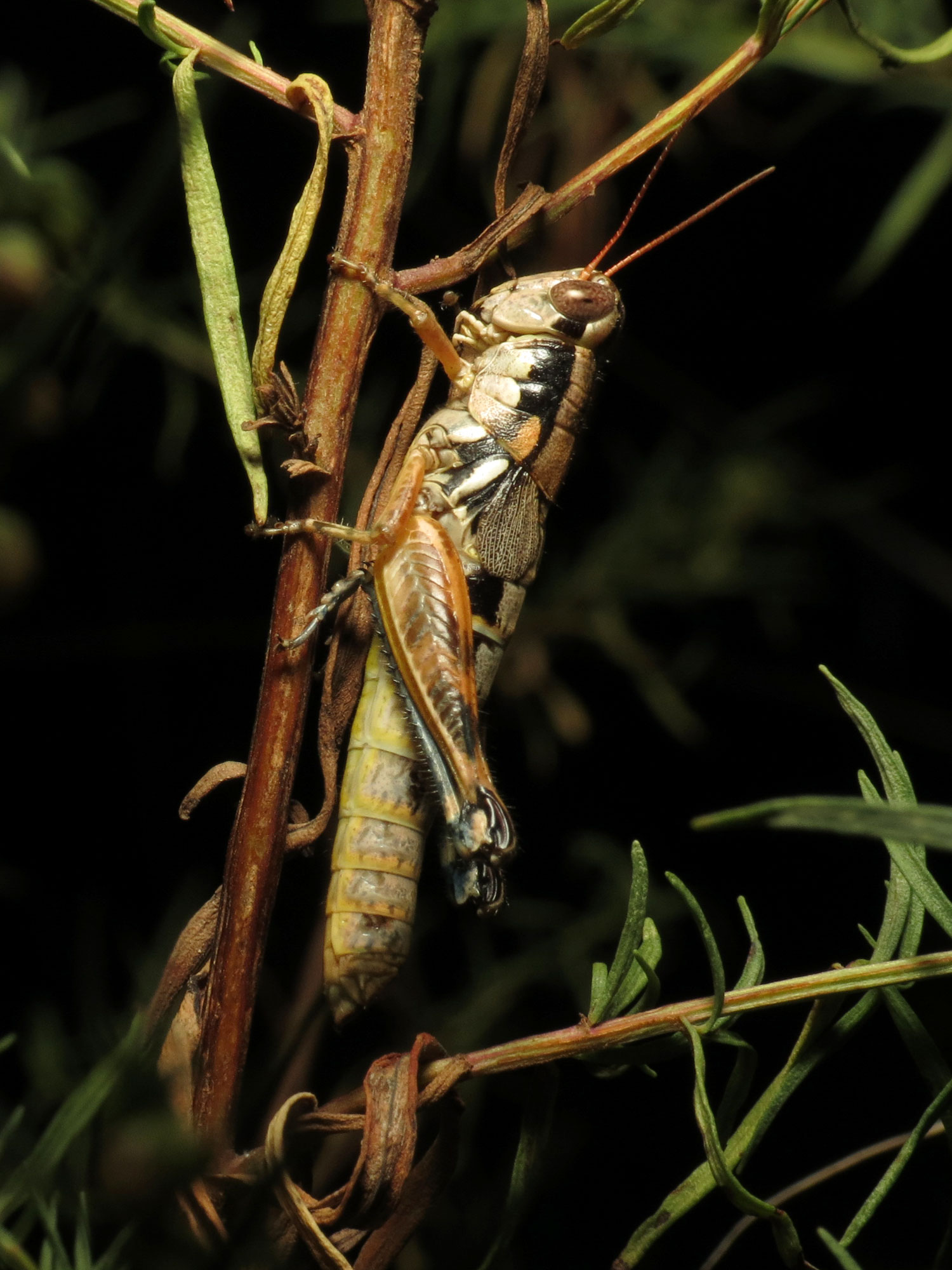 Phoetaliotes nebrascensis. Molino Basin, Santa Catalina Mountains, Pima County, Arizona, USA. 18 September 2012.